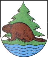 Old coat of arms of Bad Bibra